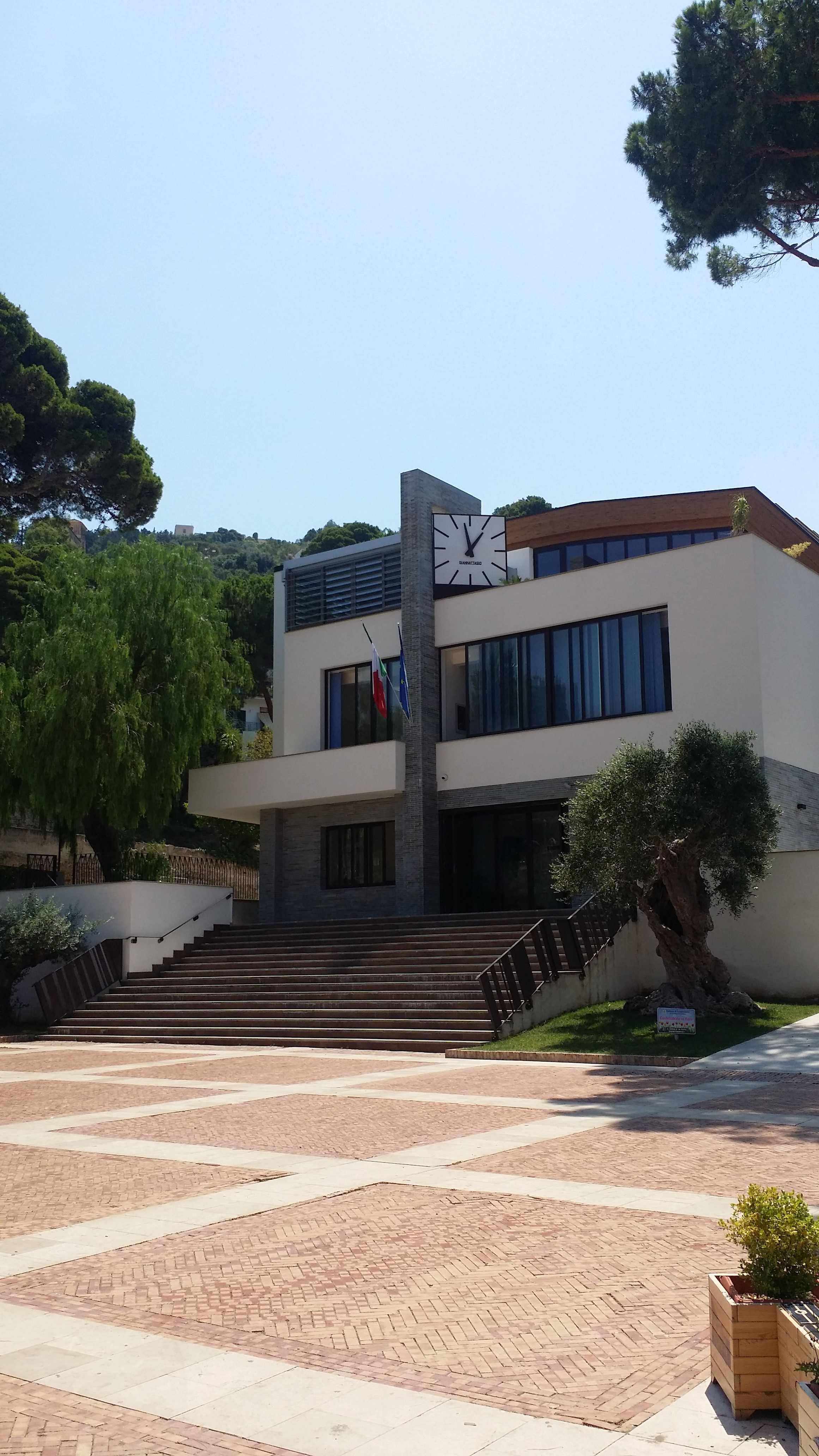 Facade of the municipality of Santa Maria di Castellabate